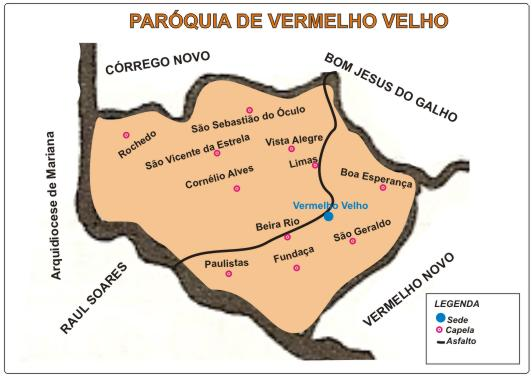 Catholic Parish of Vermelho Velho Map